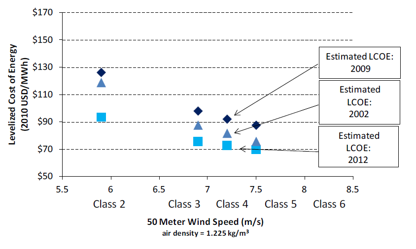 Danish wind power LCOE vs wind speed, with average cost estimates from 2002, 2009, and 2012.